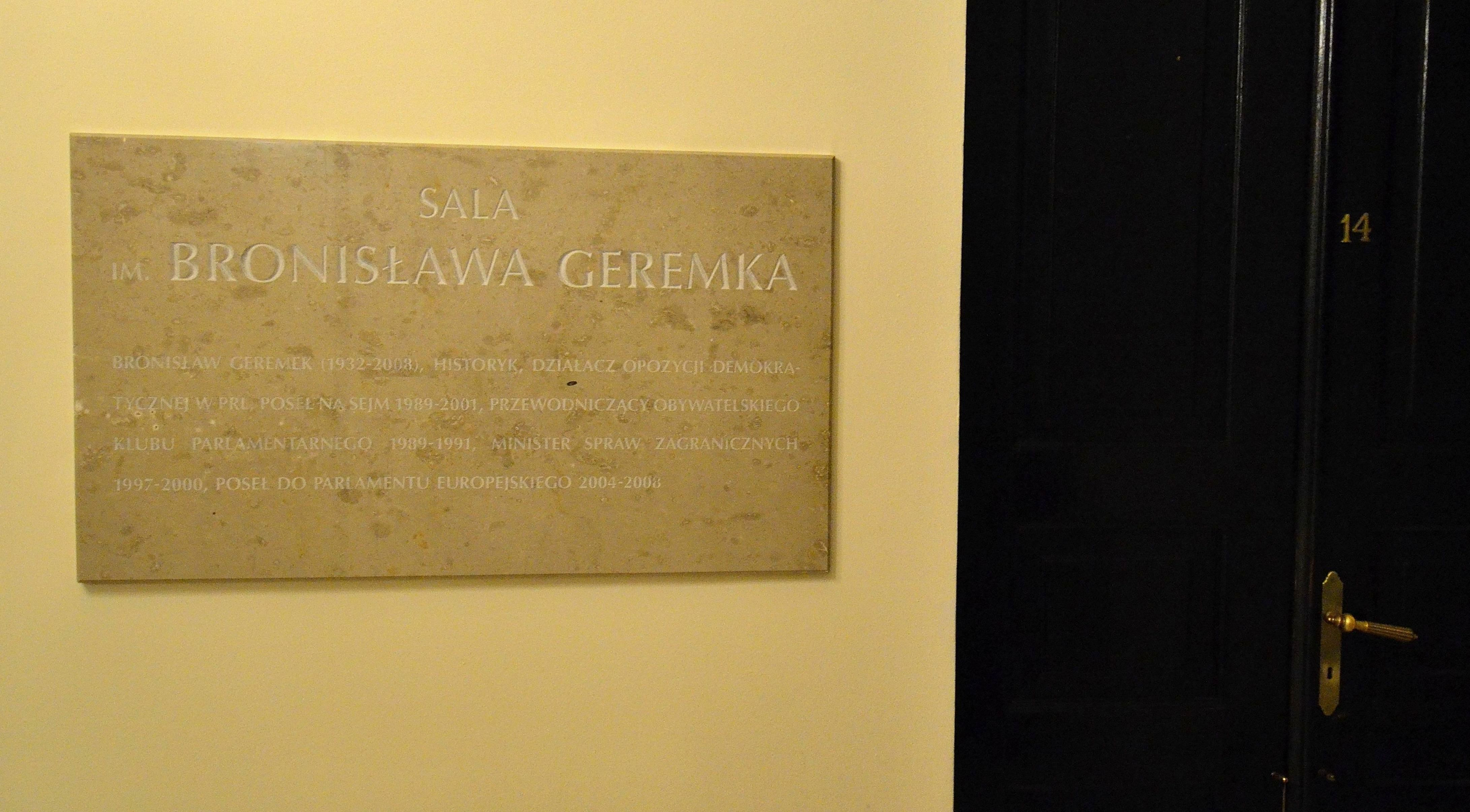 Plaque in memory of Bronisław Geremek near the entrance to the hall no 14 named after him in "G" builing in the Sejm complex